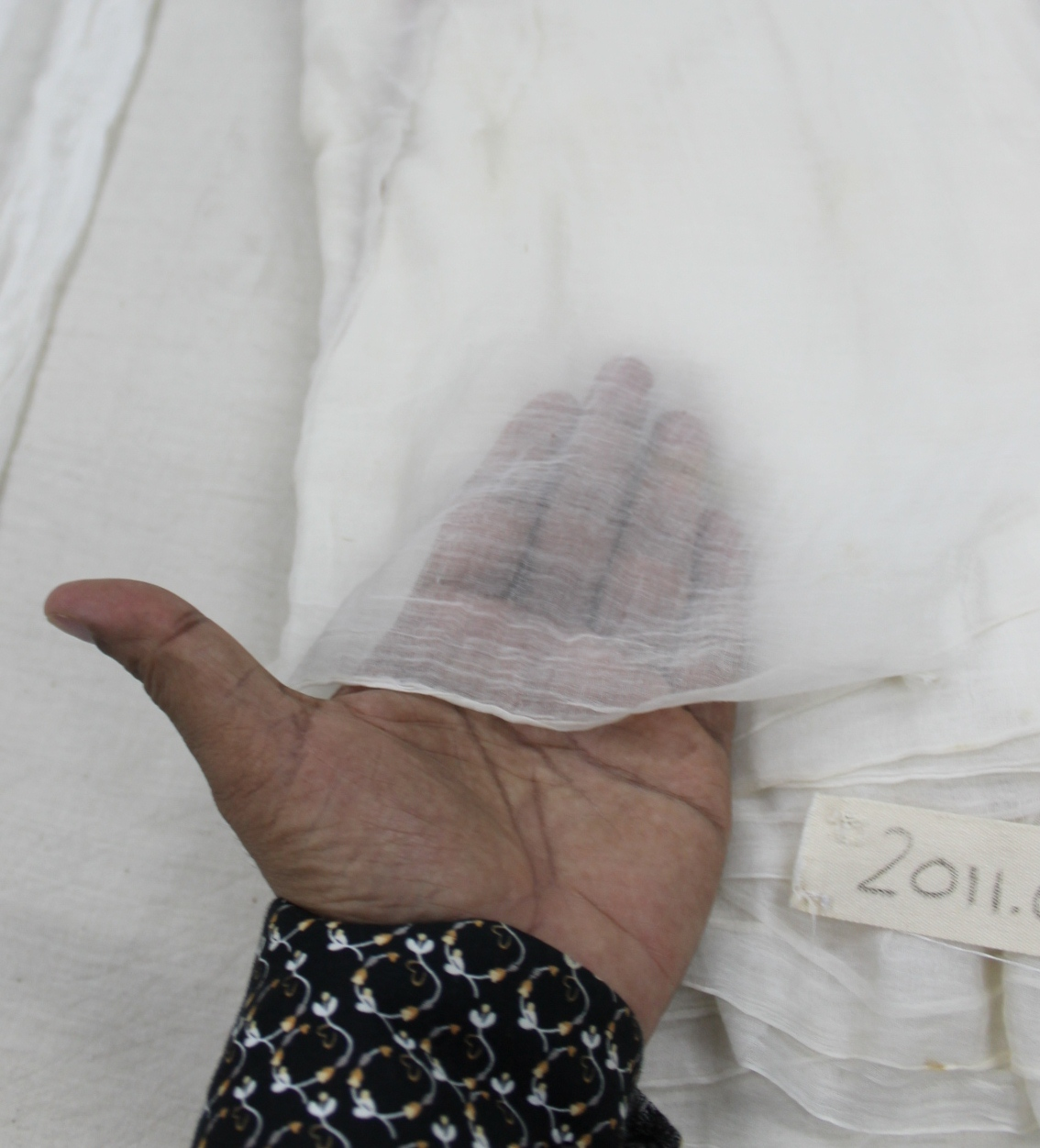 Transparency of Muslin, woven in late 18th century in Sonargaon, Dhaka